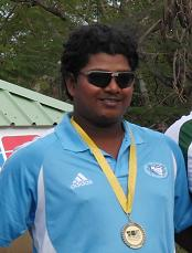 Champia Receiving his medal for best score at 90m at Archery World Cup 2009, in Santo Domingo